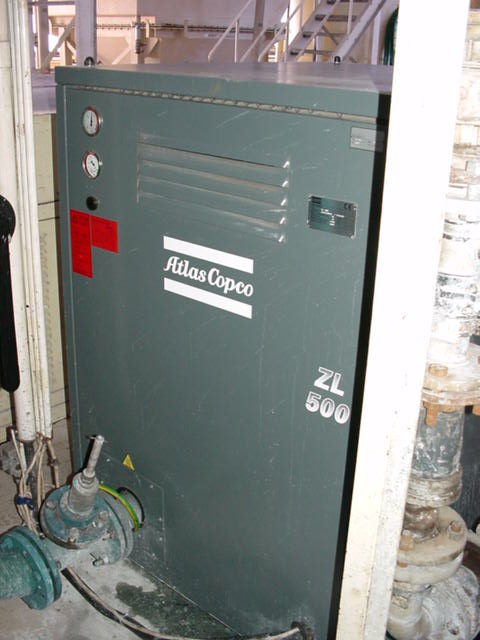 Roots blower